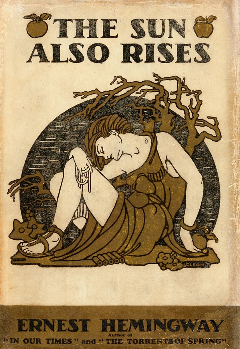 First-edition dust jacket cover of The Sun Also Rises (1926), the second novel by the American author Ernest Hemingway.